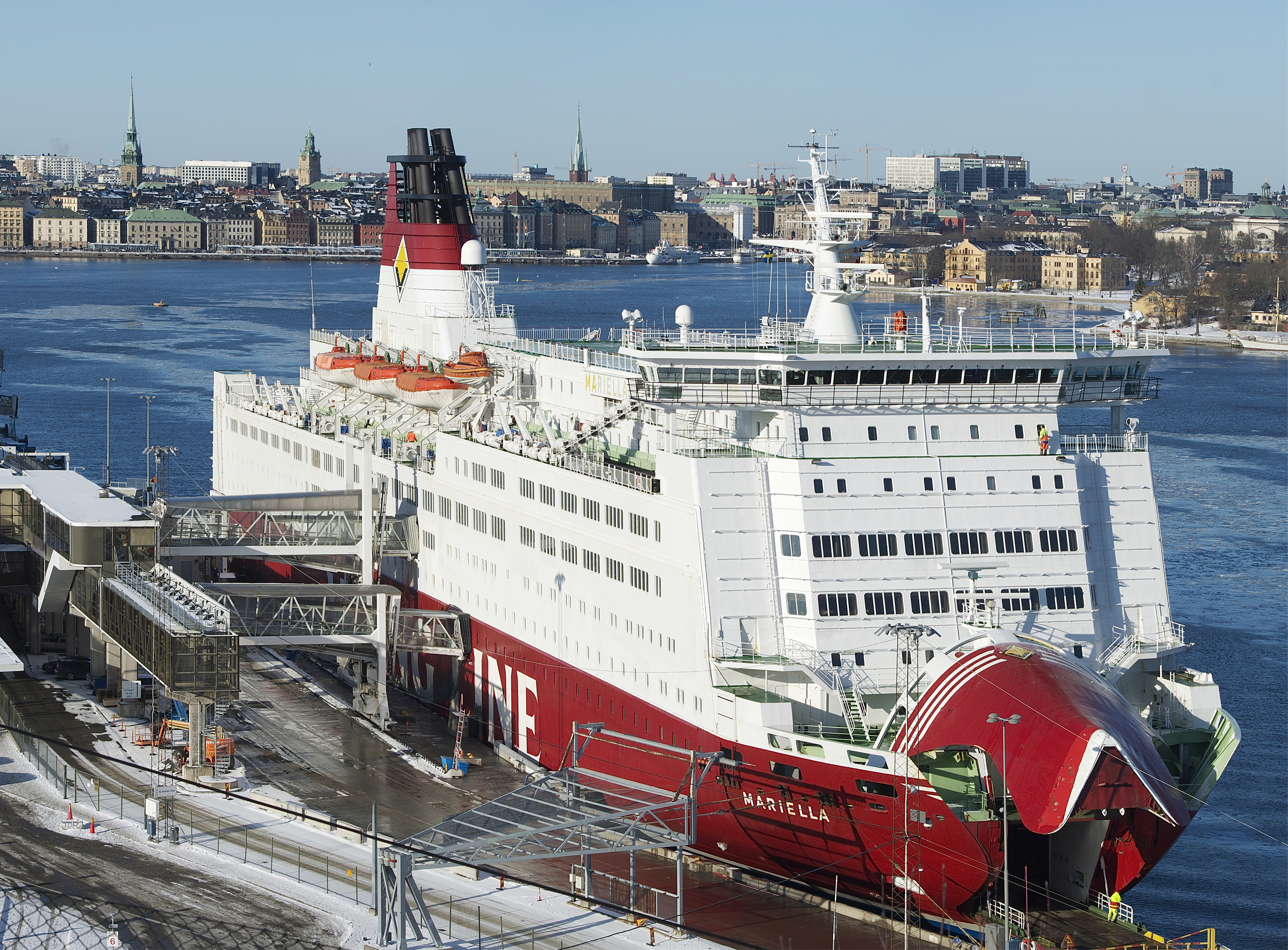 M/S Mariella in Stockholm. This image was created with Hugin.